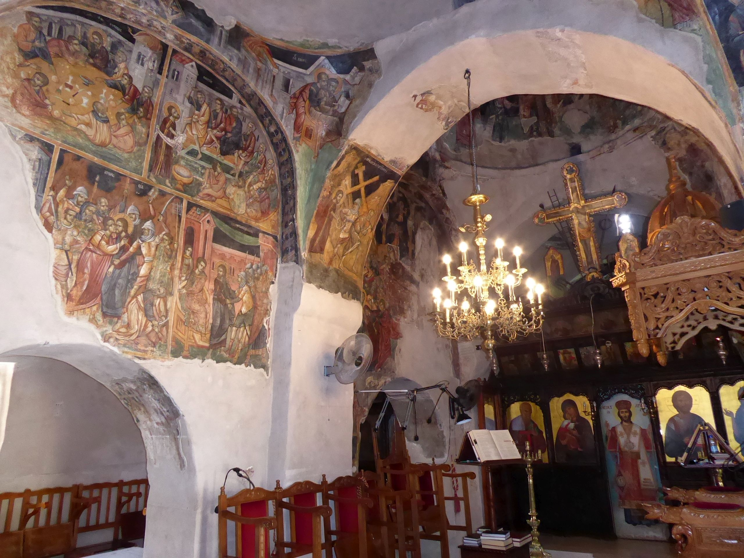 Yeroskipou - Agia Paraskevi